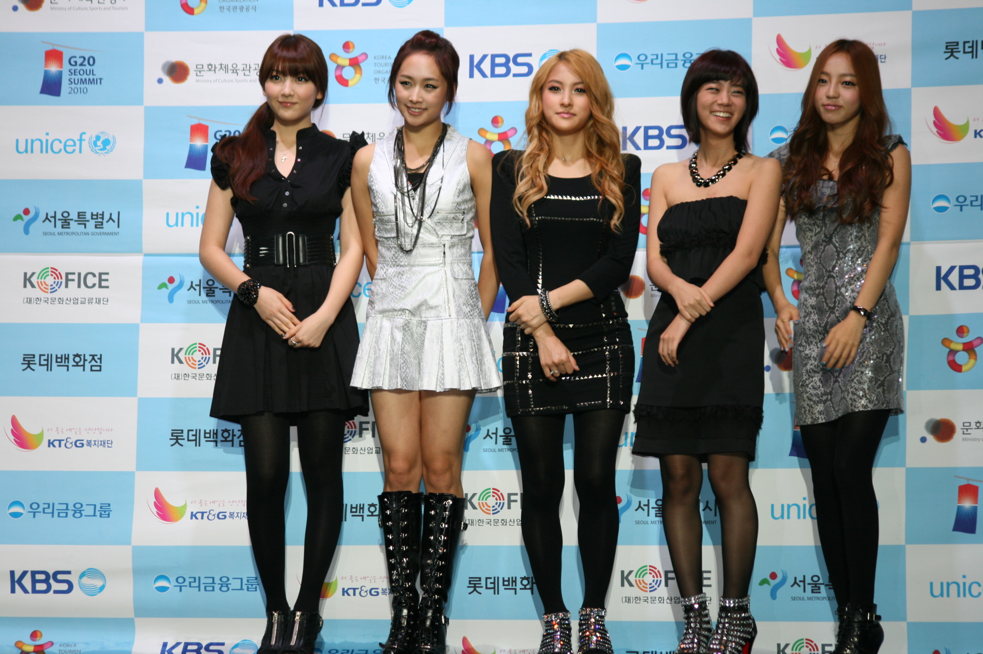 Kara before the departure of Nicole and Jiyoung. From left to right: Jiyoung, Nicole, Gyuri, Seungyeon & Hara.